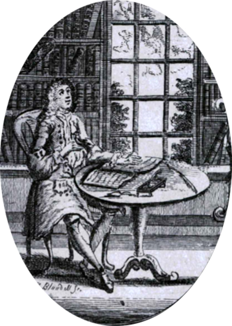 John Arnold of Great Warley, musical composer circa 1760